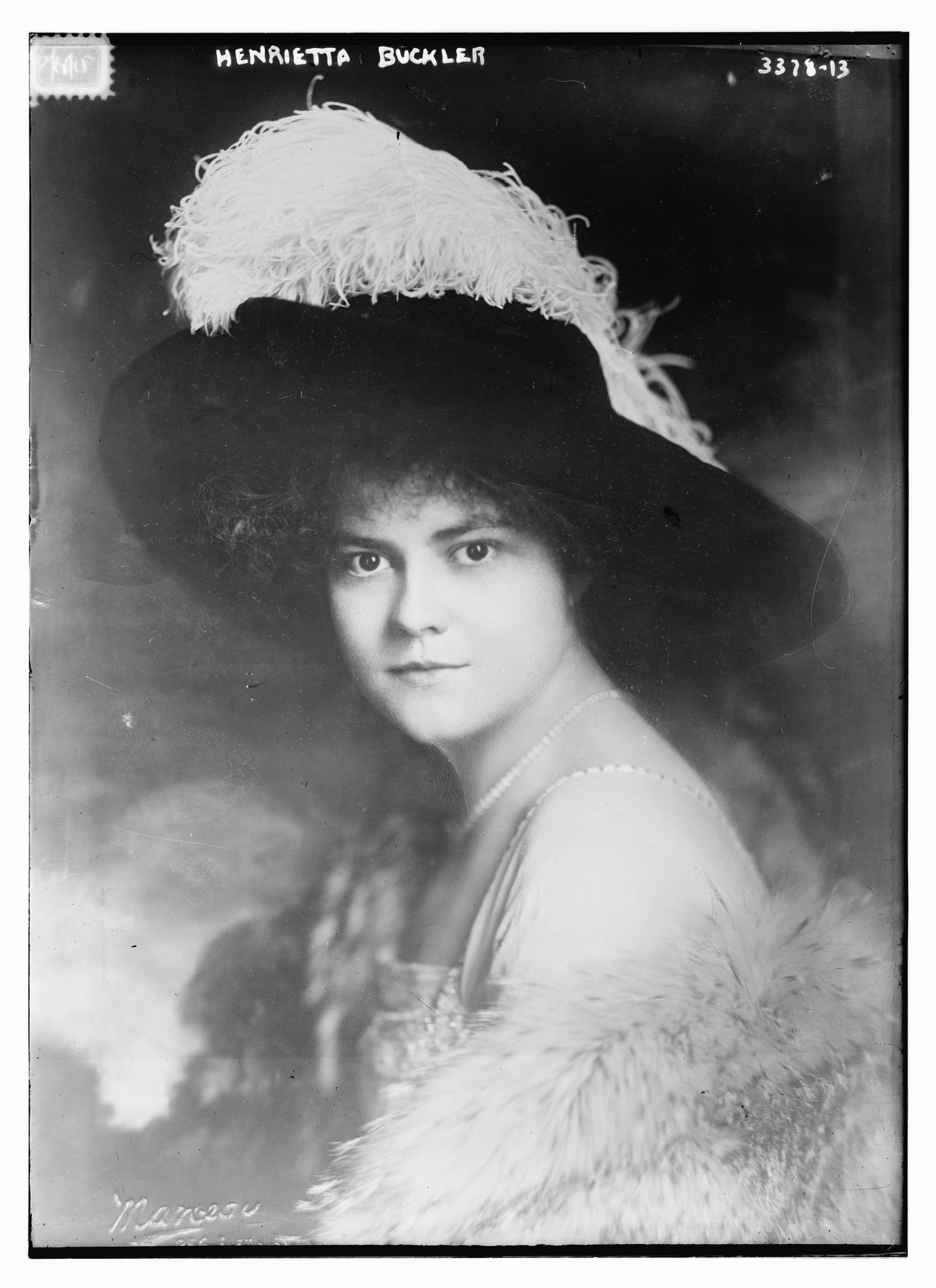 Henrietta Buckler Sieberling (1888-1979) was born in Kentucky, raised in El Paso TX. She attended Vassar and in 1917 married John Frederick Sieberling. They had three children together and lived in Ohio. She credited with being one of the founders of Alcoholics Anonymous. In 1998 she was inducted into the Ohio Women's Hall of Fame. She was the one who set up the meeting of the co-founders of Alcoholics Anonymous, Bill Wilson and Dr. Bob Smith on Mother's Day 1935. She was a member of the Oxford Group in Akron,OH. She was not known to have a drinking problem. erling.htm